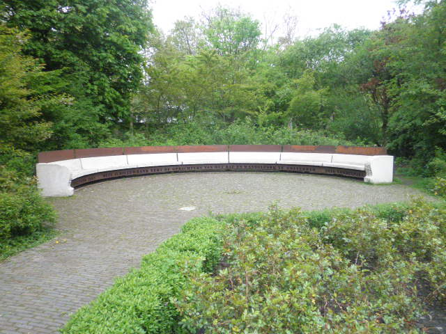 Work: Jubileumbank; Artist: Geert Lebbing; Year: 2010; Streat: Vondelpark; Material: Concrete